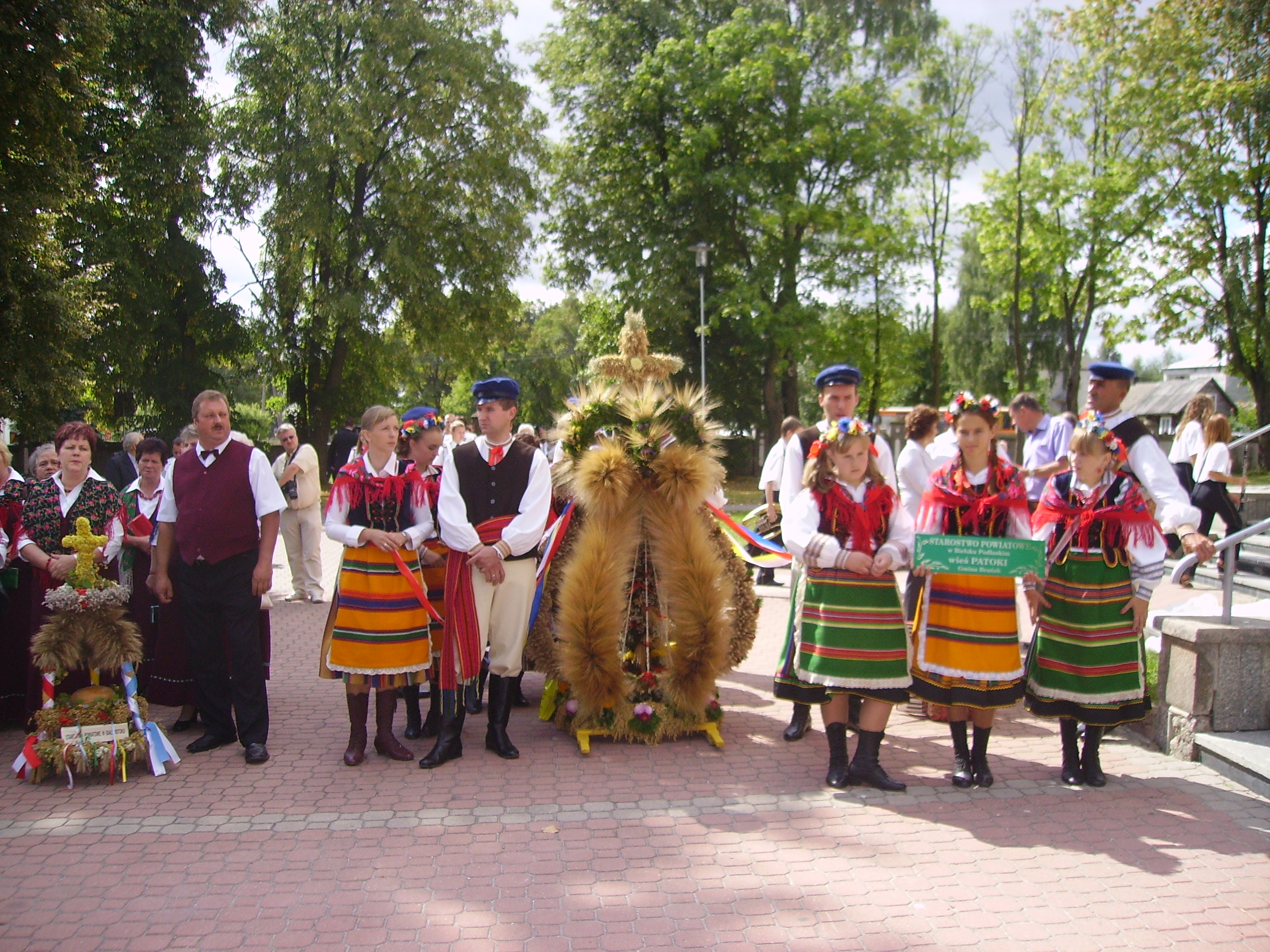 Harvest provincial 2011, Mońki. Wreath of Patoki, Podlaskie Voivodeship